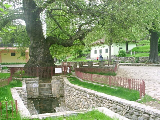 Town of Prizren in southern Kosovo